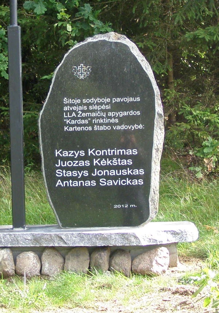 Sakuočiai monument, Kretinga district, LithuaniaLietuvių: Paminklas Žemaičių apygardos Kardo rinktinės štabo narių atminimui, Sakuočių k., Kretingos rajonas, Lietuva